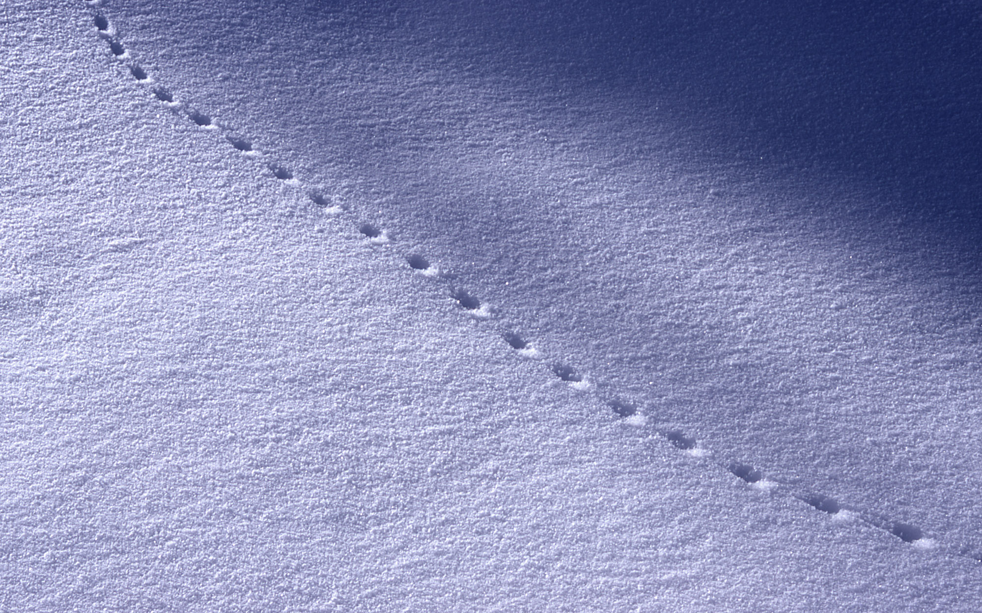 Photograph of tracks left in snow by a mouse (Mus).